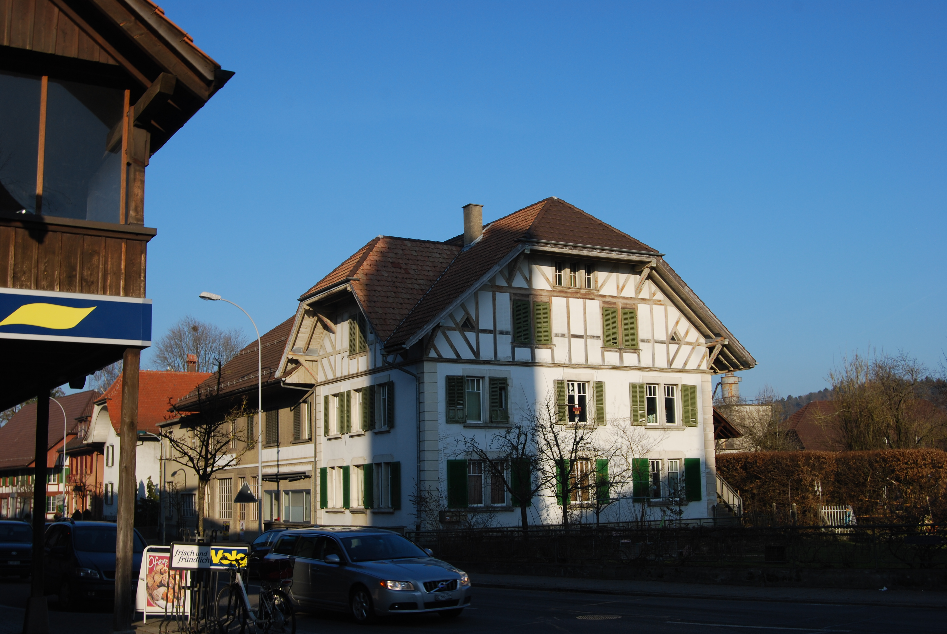 Timber framing house at Lotzwil, canton of Bern, Switzerland